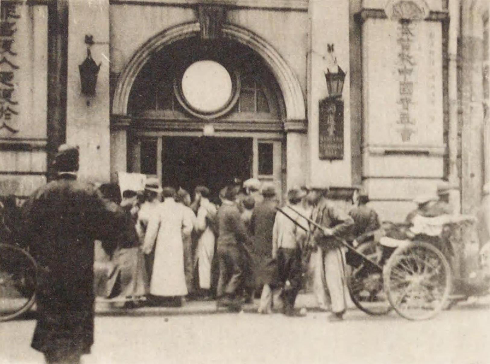 The anti-Japanese mass meeting by the Chinese buisness circle held at Y.M.C.A building in Shanghai.